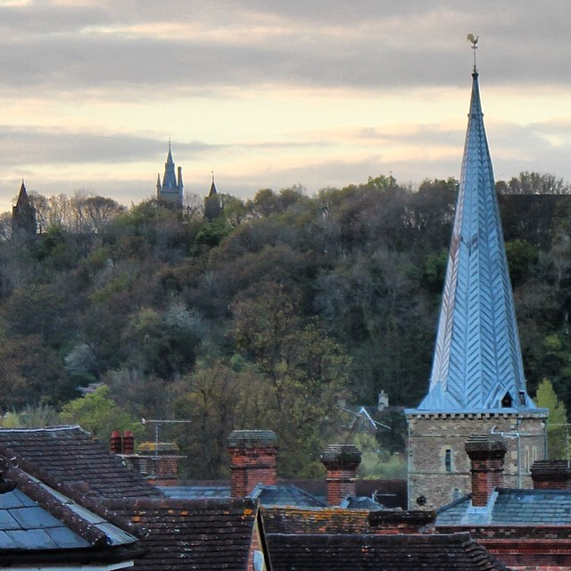 Charterhouse School and Godalming Church, Surrey, UK.